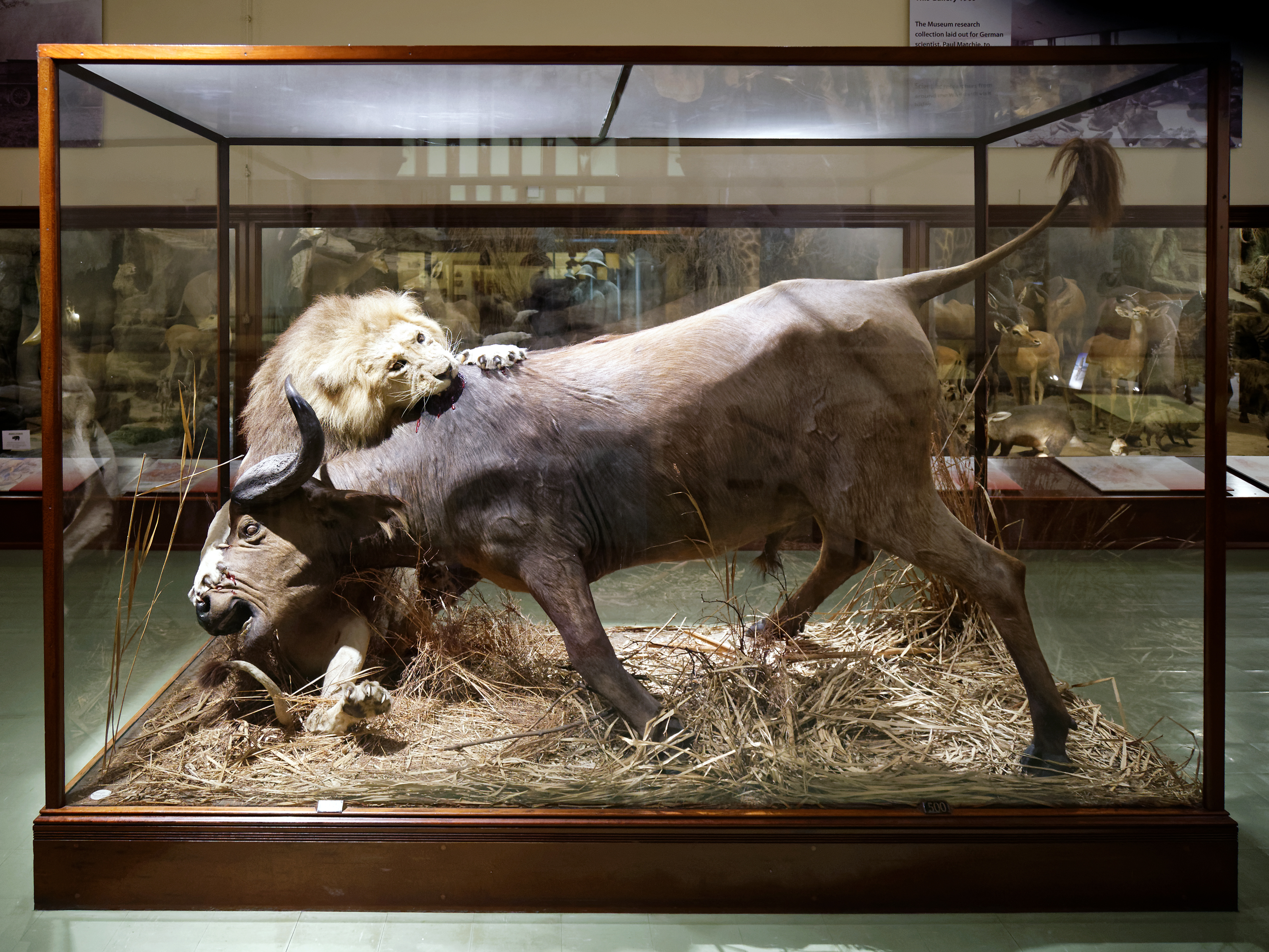 Taxidermy display of a lion attacking a Semliki red African buffalo (Syncerus caffer cottoni), at the Powell-Cotton Museum of Quex Park in the civil parish of Birchington in Kent, England.Camera: Canon EOS 6D with Canon EF 24-105mm F4L IS USM lens.Software: large RAW file lens-corrected, optimized and downsized with DxO OpticsPro 10 Elite, Viewpoint 2, and Adobe Photoshop CS2.